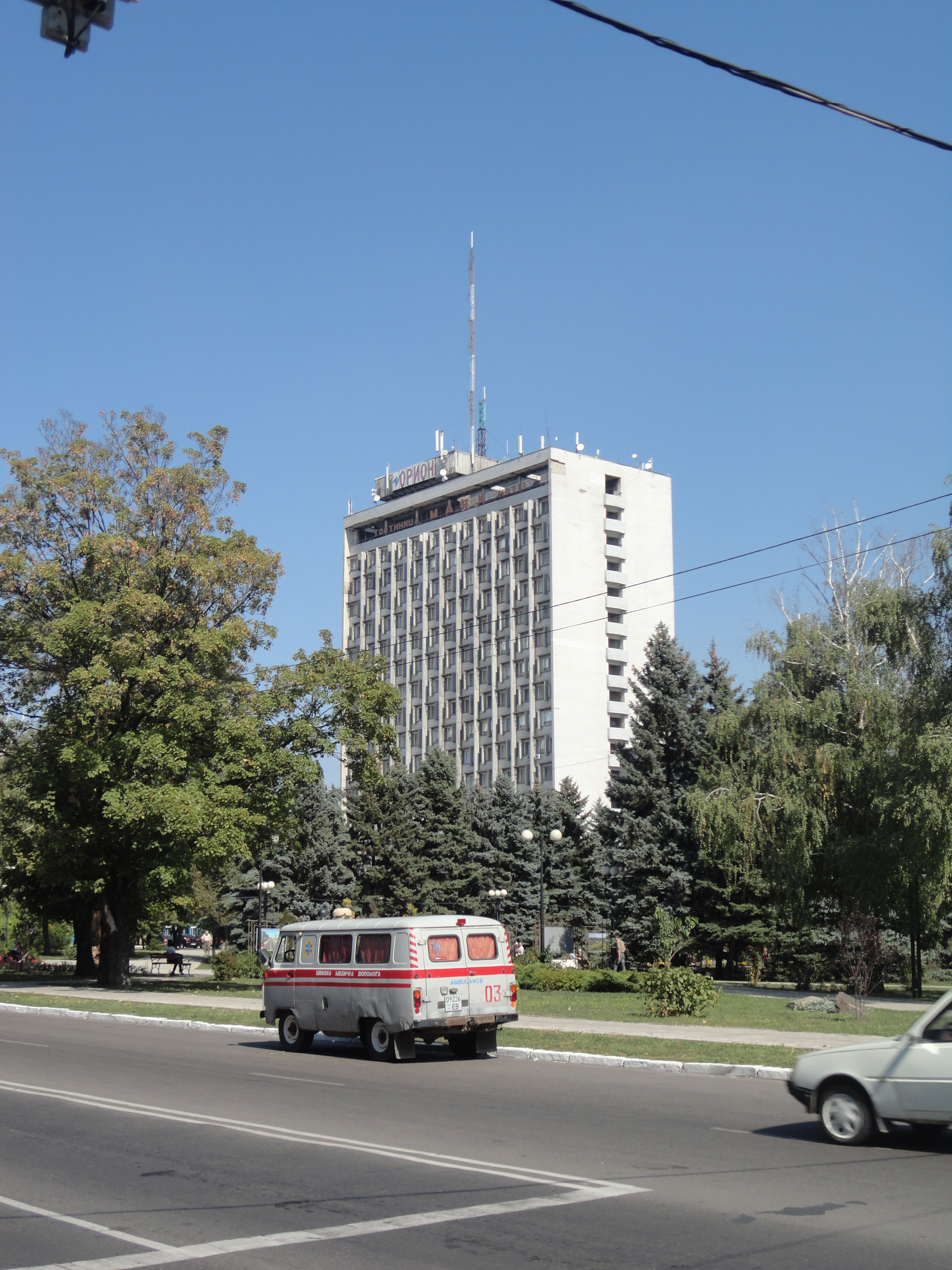 Makiivka, Hotel Orion/Макіївка, Готель Оріон